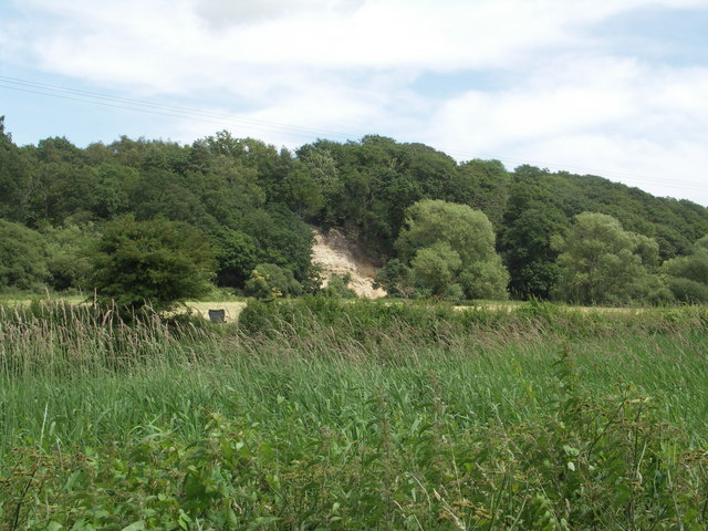 Dudsbury Rings Dudsbury Rings are the remains of an Iron Age fort. The rings are now heavily wooded. This is the view of the rings from the south side of the River Stour.